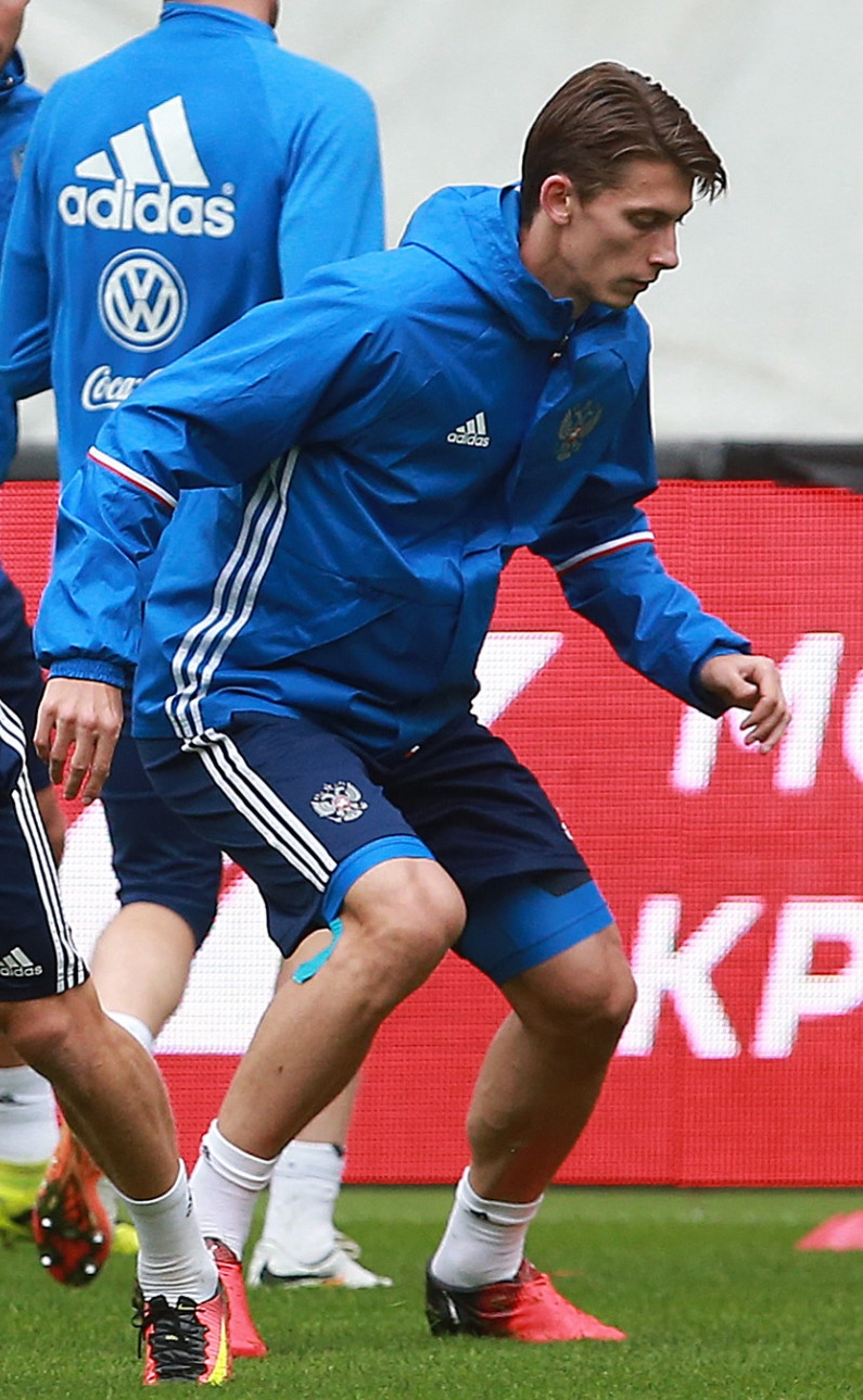 Ilya Kutepov with the Russia national football team preparing for the game against Ghana.